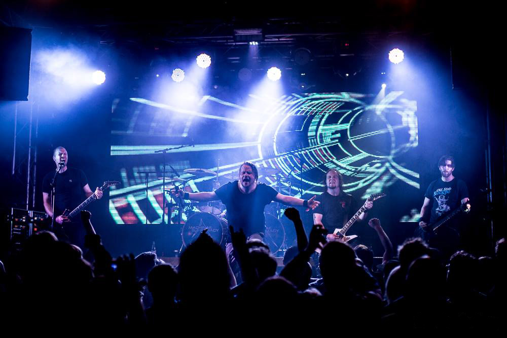 The SID-metal band Machinae Supremacy performing live at Sticky Fingers in Gothenburg, Sweden.